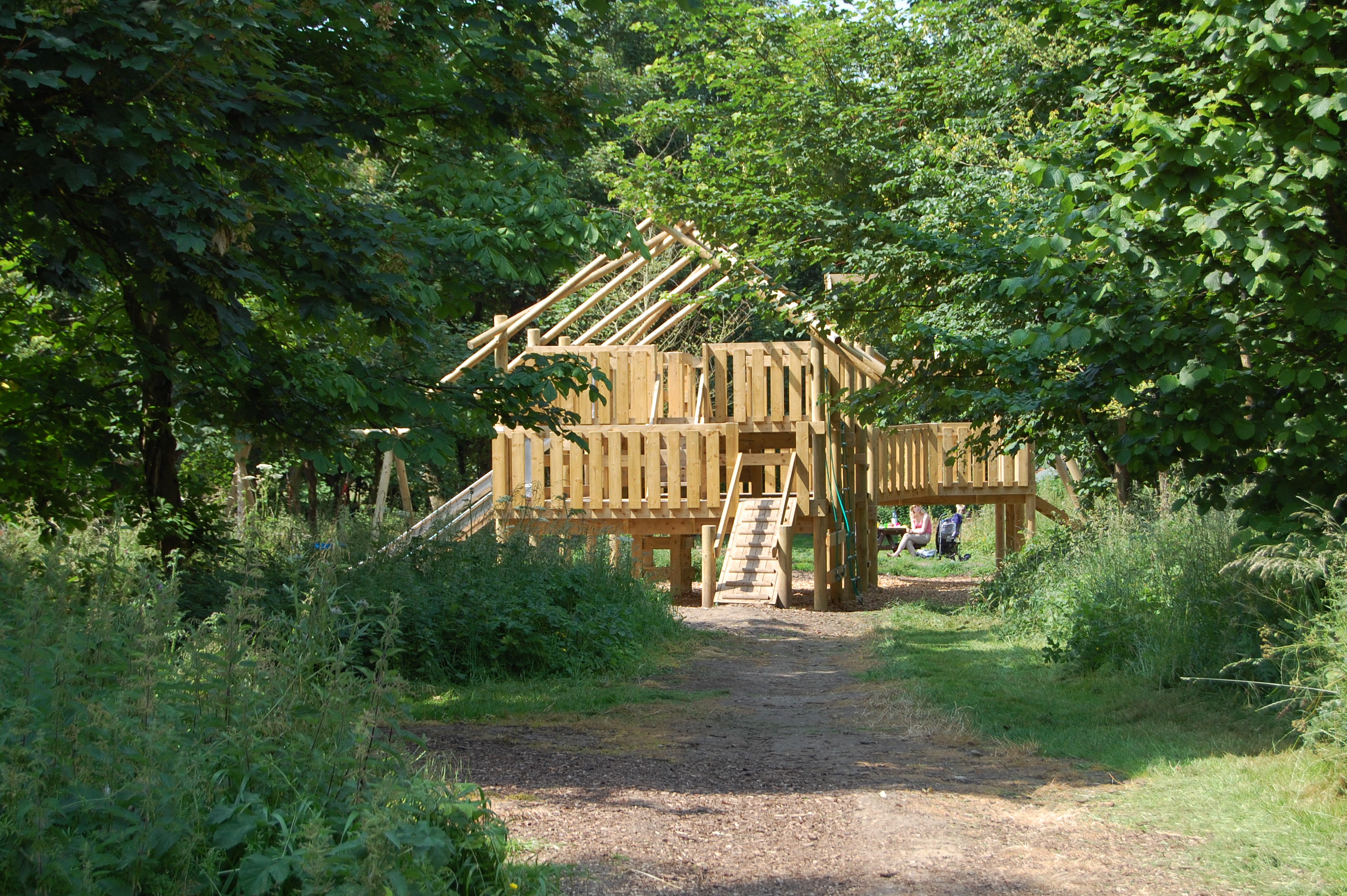 Portraying a walk from the orchard into the sunlit woodland, with the promise of fun to come